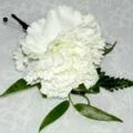 White carnation